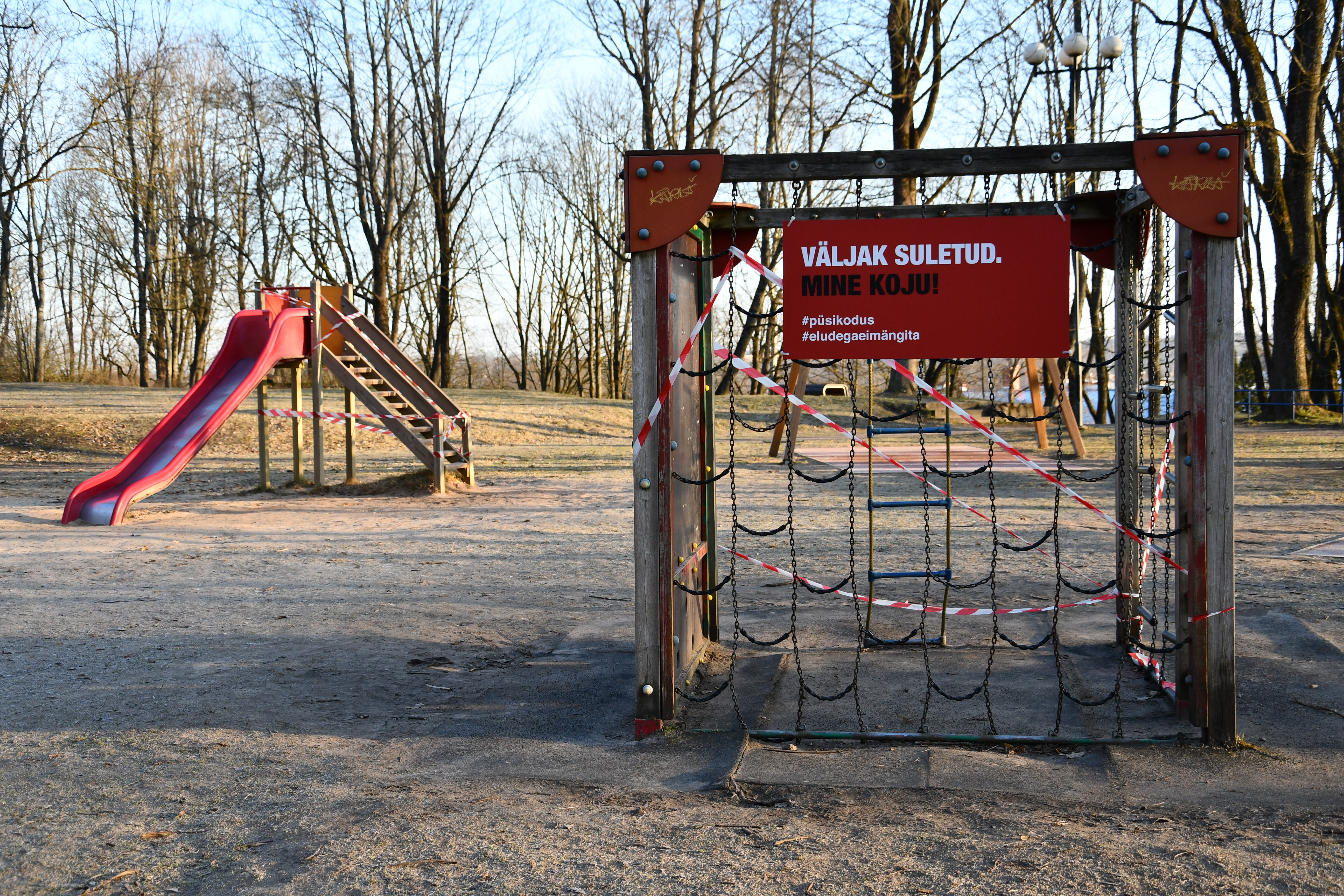 COVID-19 emergency situation messages at kid's playgrounds saying "Playground closed, go home", hashtag #eludegaeimängita meaning "one shouldn't play with lives".